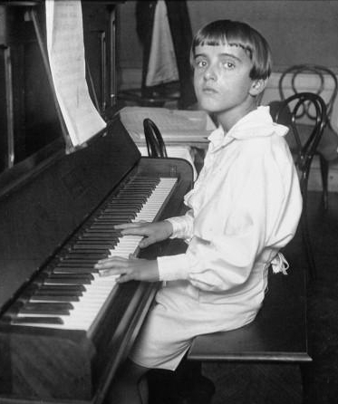 Italian composer Nino Rota (1911-1979) as a young boy at the piano in 1923.